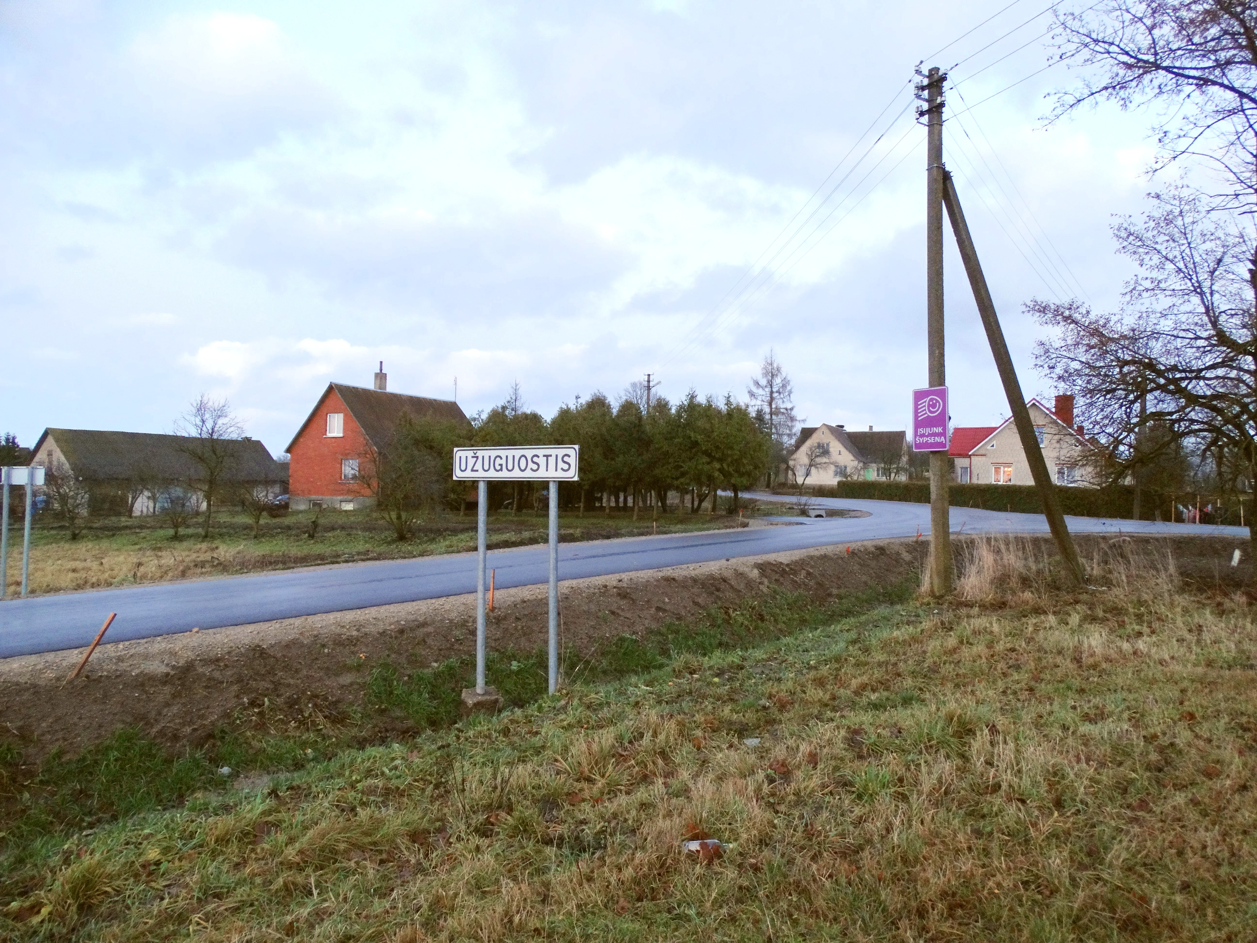 Užuguostis, Prienai district, Lithuania